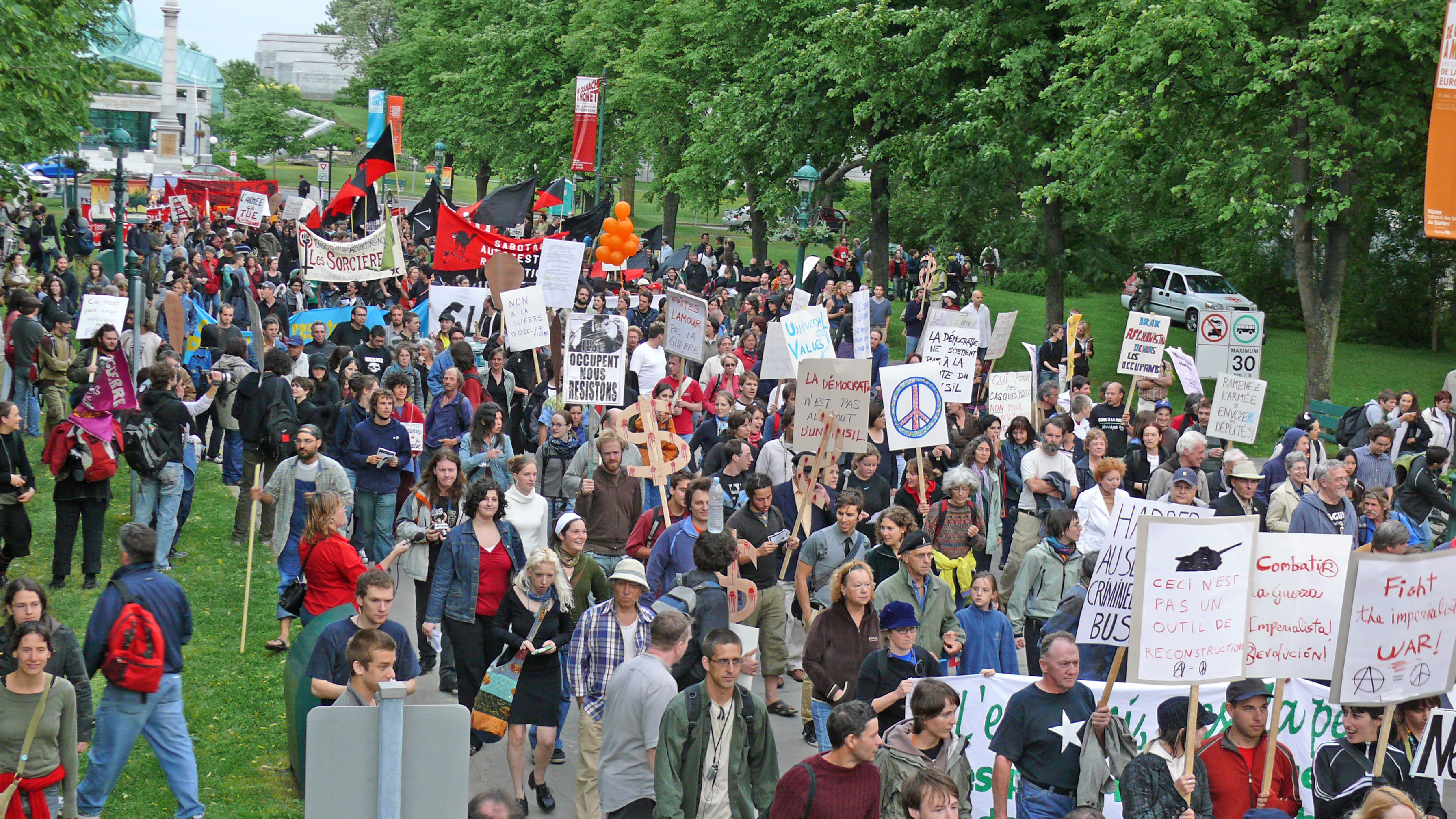 June 22, 2007 demonstration in Québec City against the Canadian military involvement in Afghanistan and the deployment of additional troops to Kandahar.